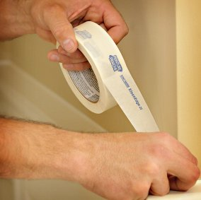 Trimaco Kleenedge® Low Tack Professional Painting Masking Tape